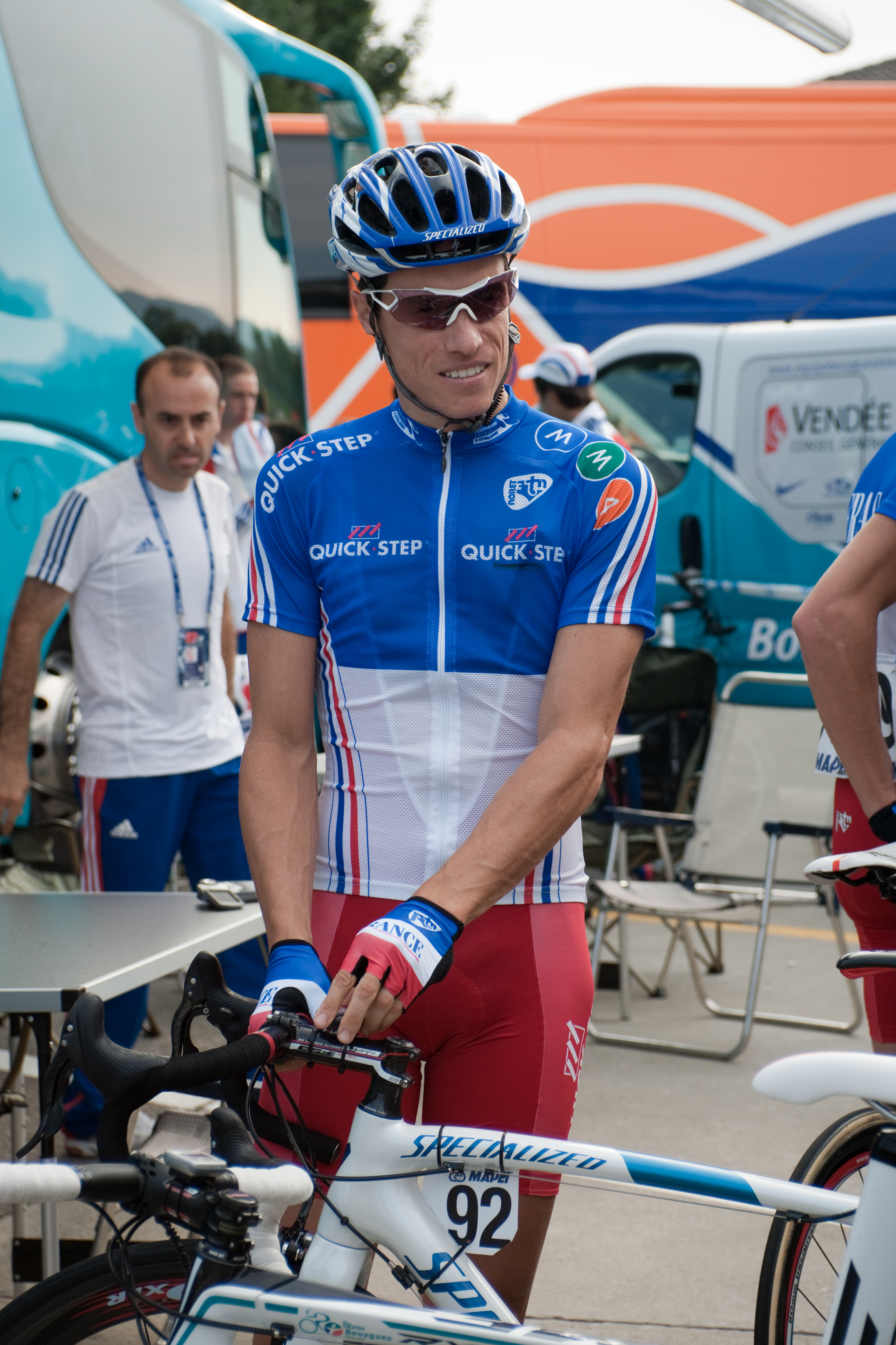 Sylvain Chavanel during the 2009 Road World Championships in Mendrisio, Switzerland.